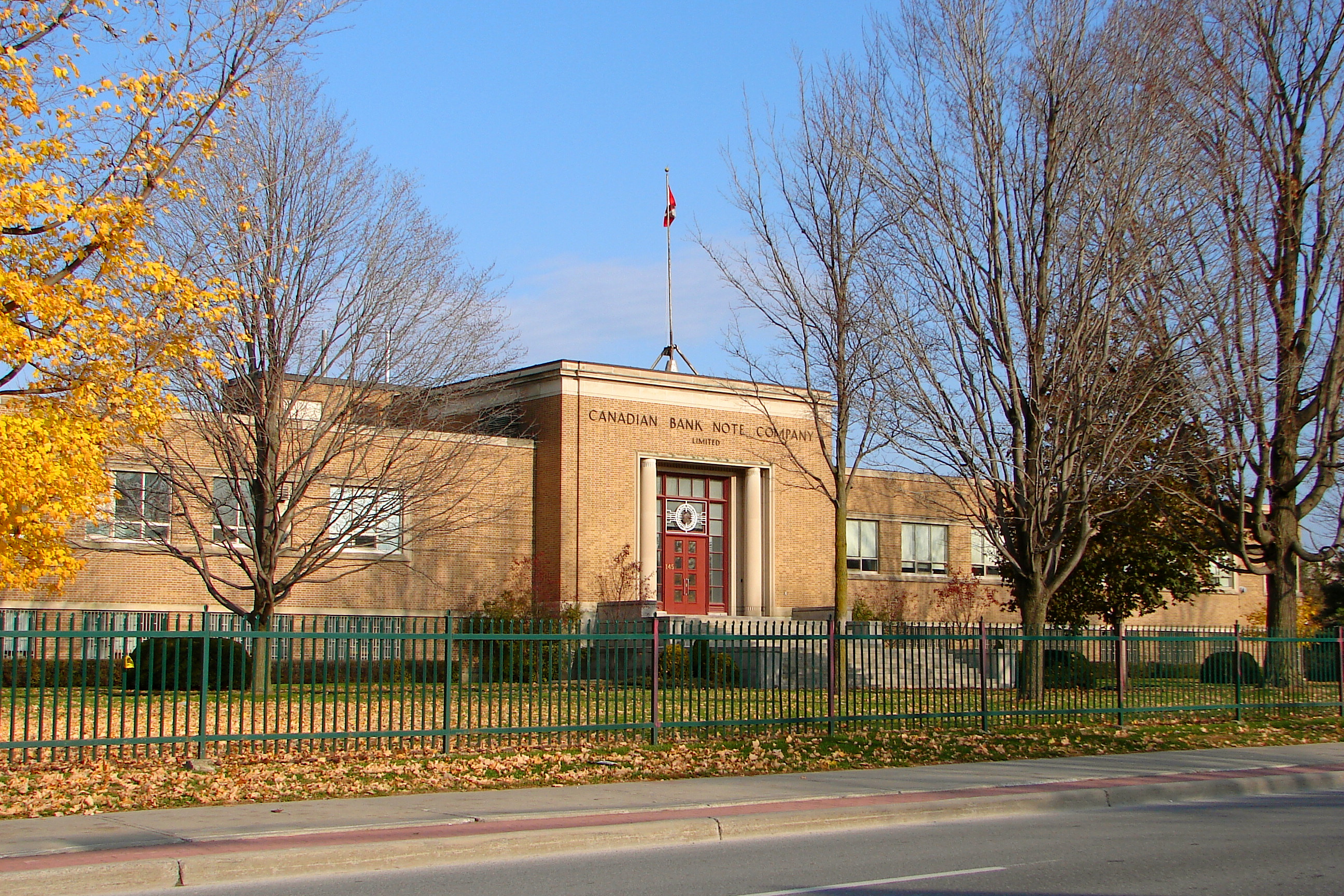 Canadian Bank Note Company head office in Westboro, City of Ottawa, Ontario, Canada